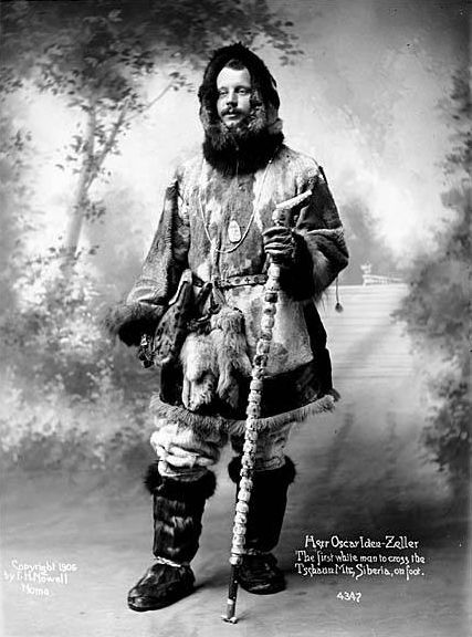 Caption: Herr Oscar Iden-Zeller, the first white man to cross the Tschaun Mts., Siberia, on foot. Copyright 1905 by F. H. Nowell, Nome. 4347 Subjects (LCTGM): Explorers--German--Alaska; Fur garments Subjects (LCSH): Iden-Zeller, Oskar, 1879-1925; Parkas--Alaska